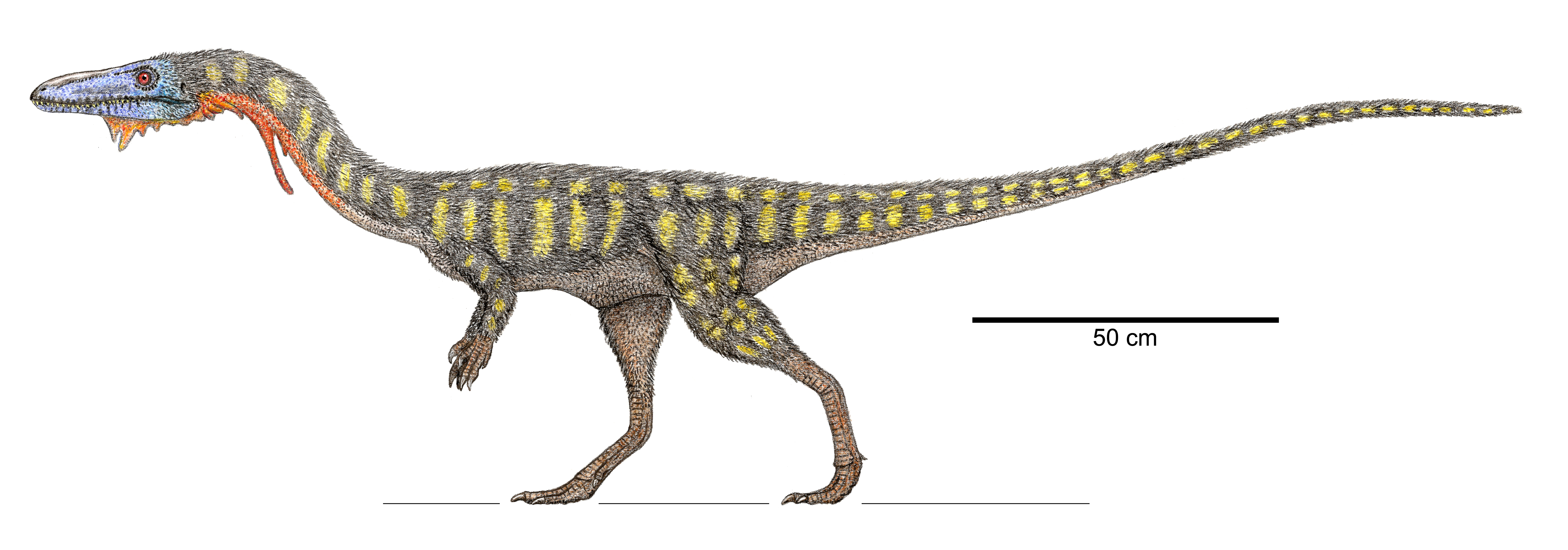 NPS Photo, Public Domain